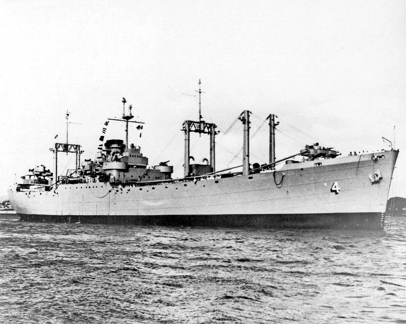 The U.S. Navy ammunition ship USS Mount Baker (AE-4) arriving at the Mare Island Naval Shipyard, California (USA), for overhaul, 9 November 1953. Mount Baker underwent repairs at Mare Island from 9 November 1953 to 20 January 1954.